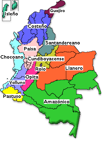 Colombian accents